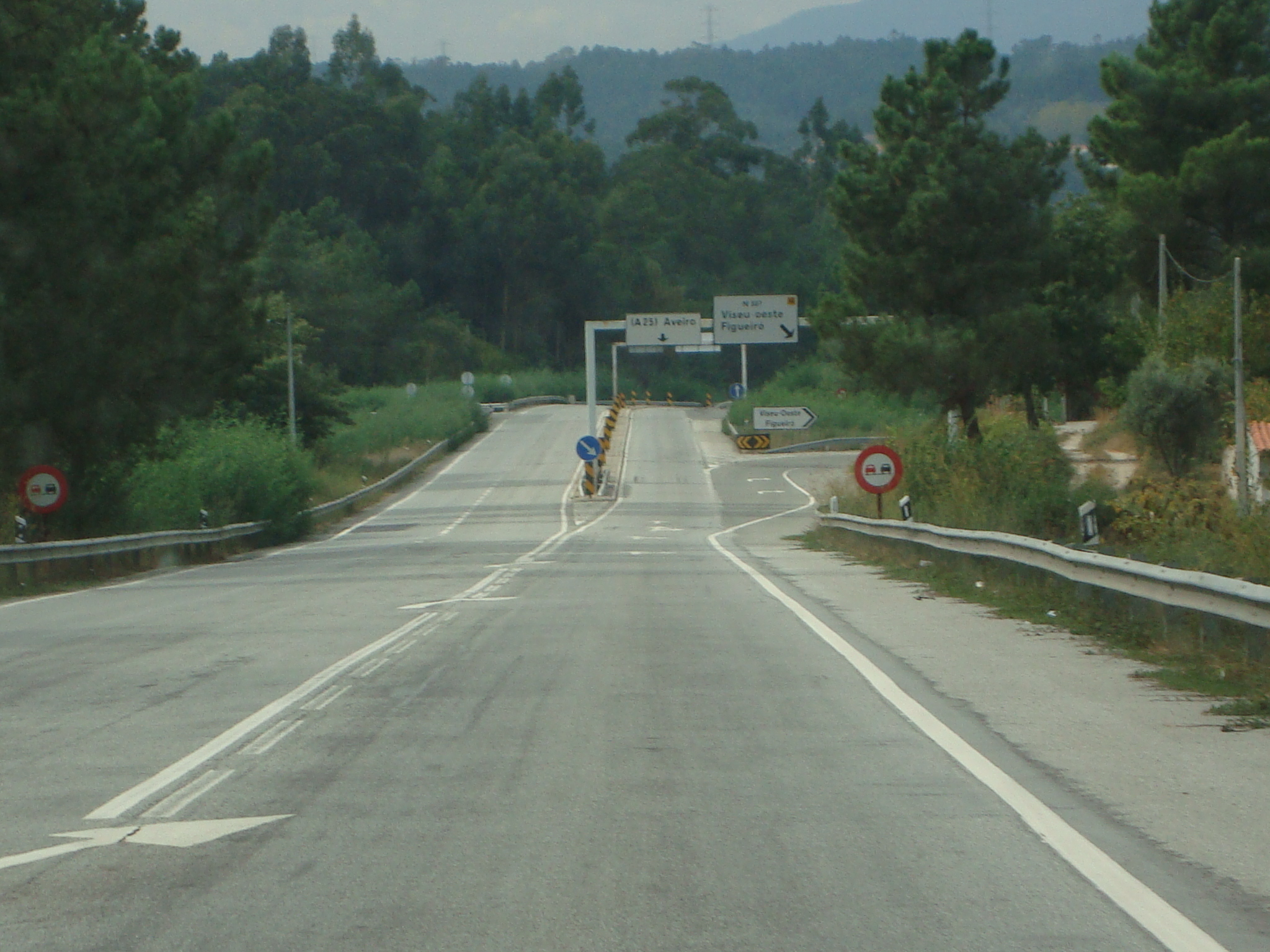 Former branch of IP5 expressway, near Viseu.